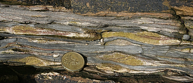 Flaser Bedding These tiny wavy beds of mudstone with lenticular pods of sandstone are typical of delta sediments. The pound coin is for scale.